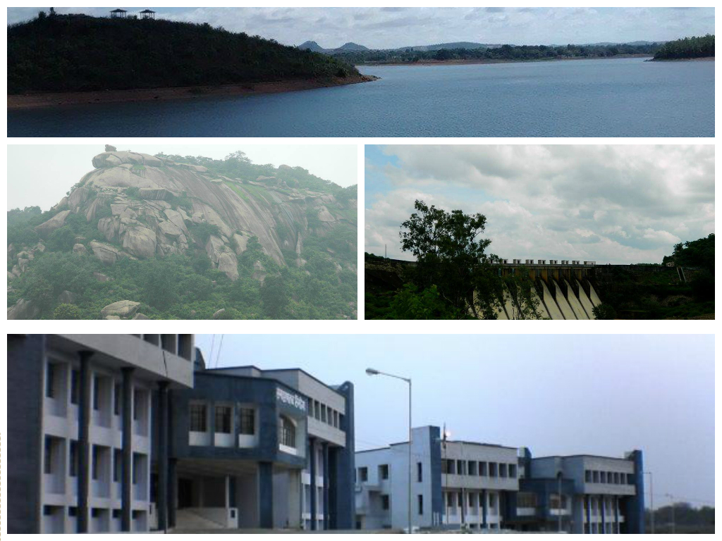 Collage of different locations in Simdega